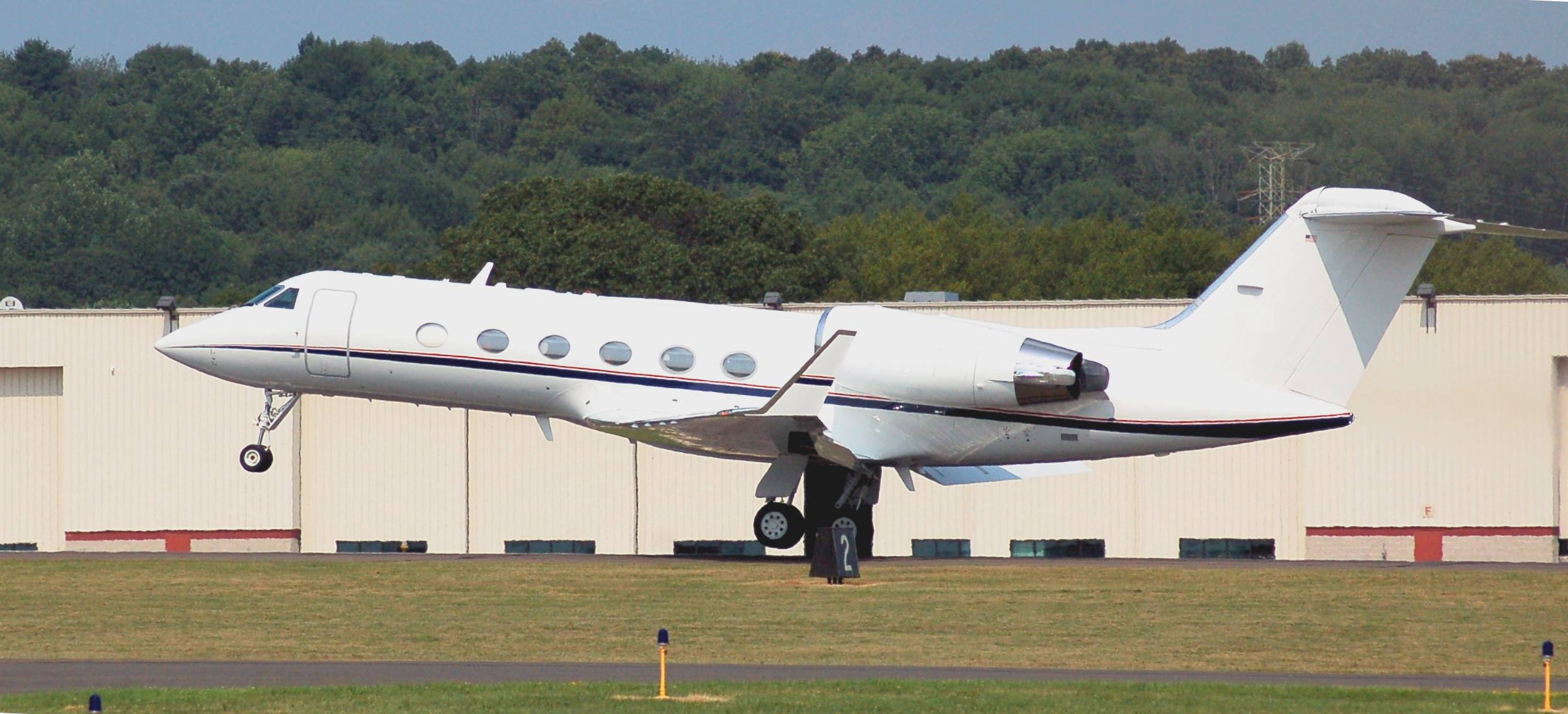 A Gulfstream IV, a regular visitor at Oxford Airport departs on runway 36.